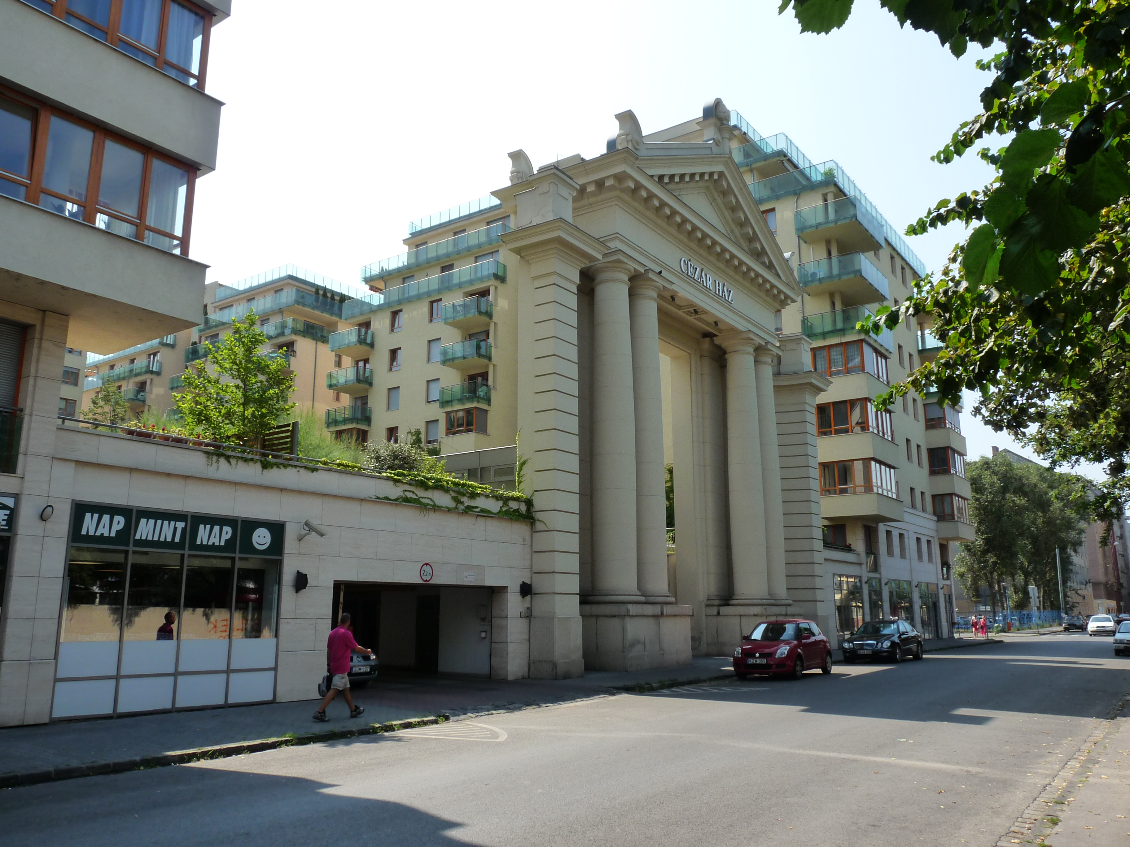 Caesar house (spelled Cézár in the original) appartment house in the 13th district of Budapest. Gate is a remainder of an earlier building on the site.